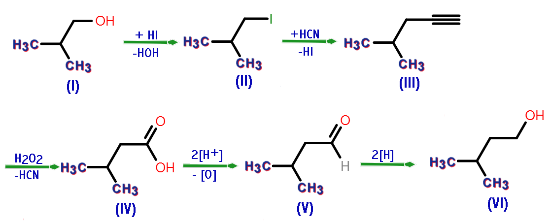 Isoamyl synthesis from isobutilene